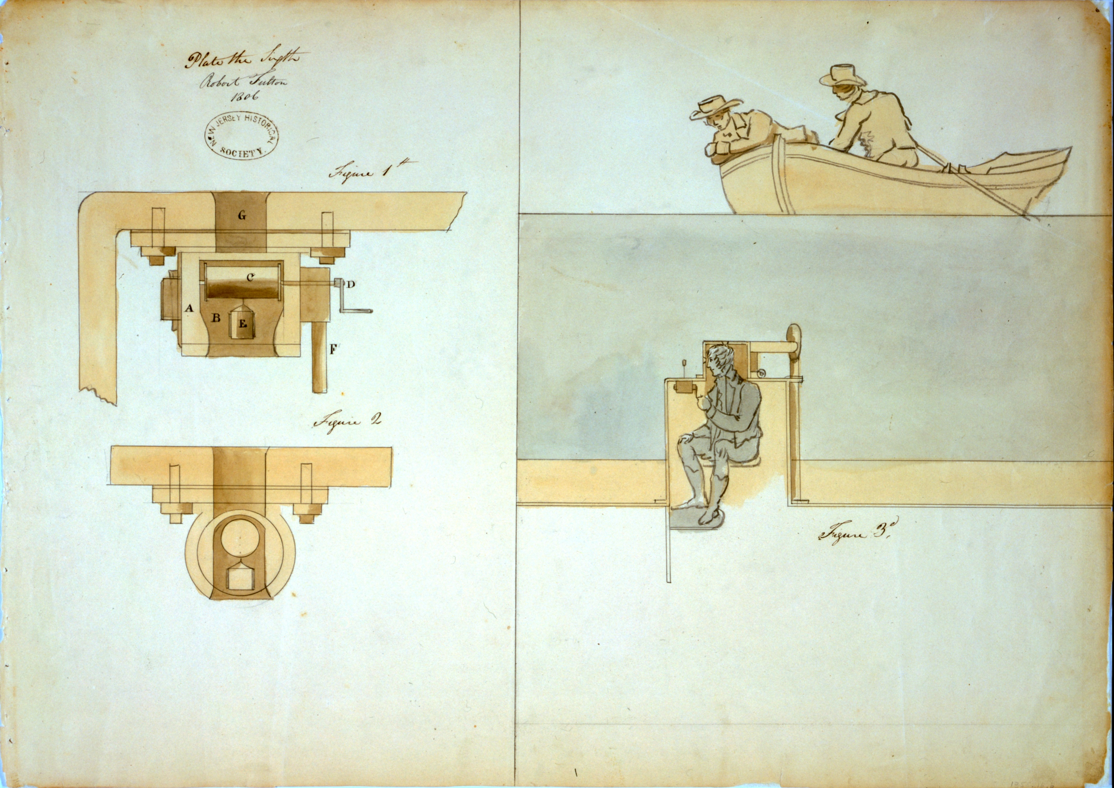 Submarine Vessel, Submarine Bombs and Mode of Attack